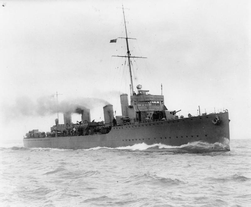 Photograph of British Faulknor class leader HMS Botha, (ex-Almirante Williams Rebolledo), returned to Chile in 1920.